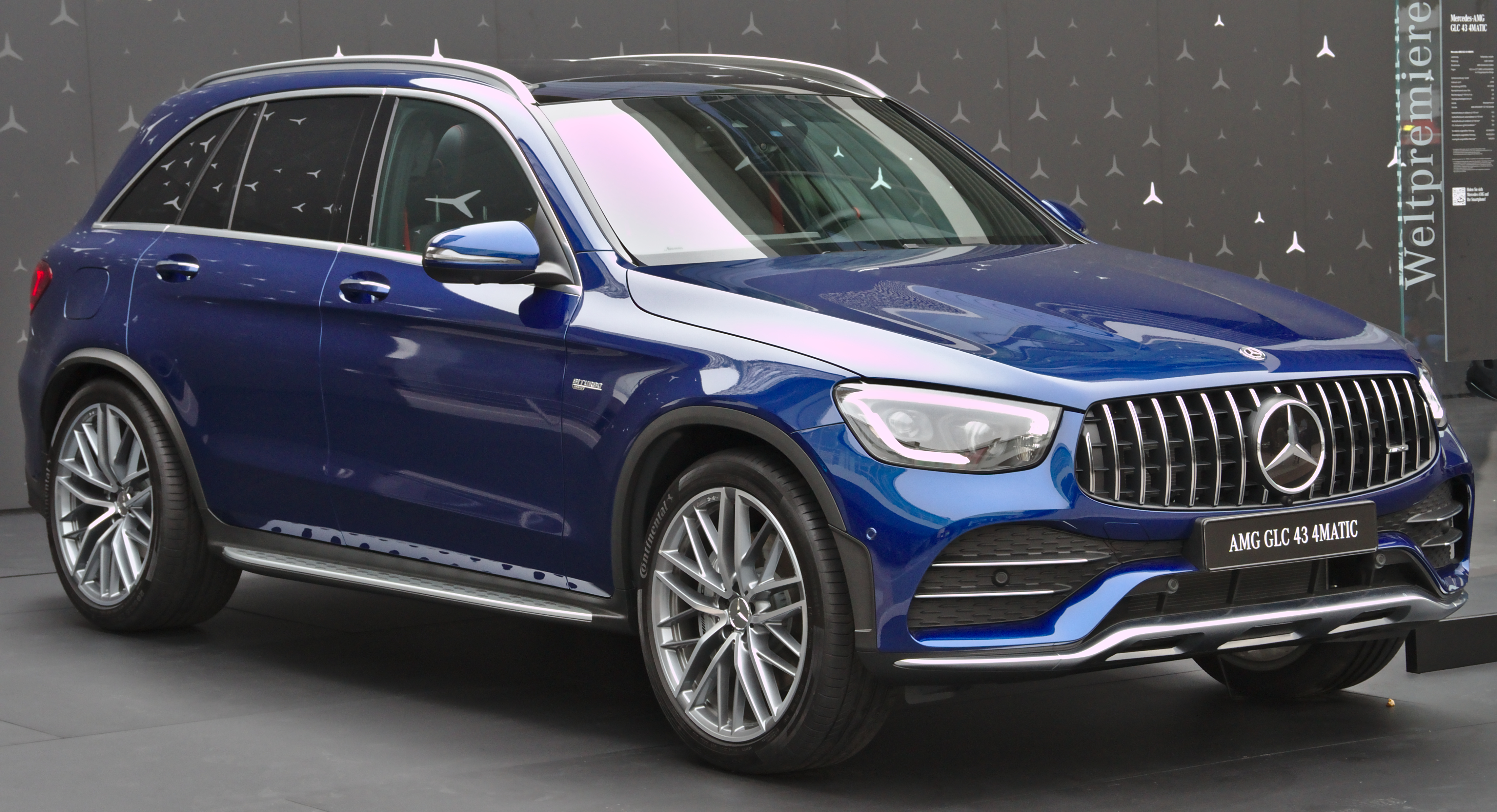 Mercedes-AMG_GLC_43_(X253) at IAA 2019